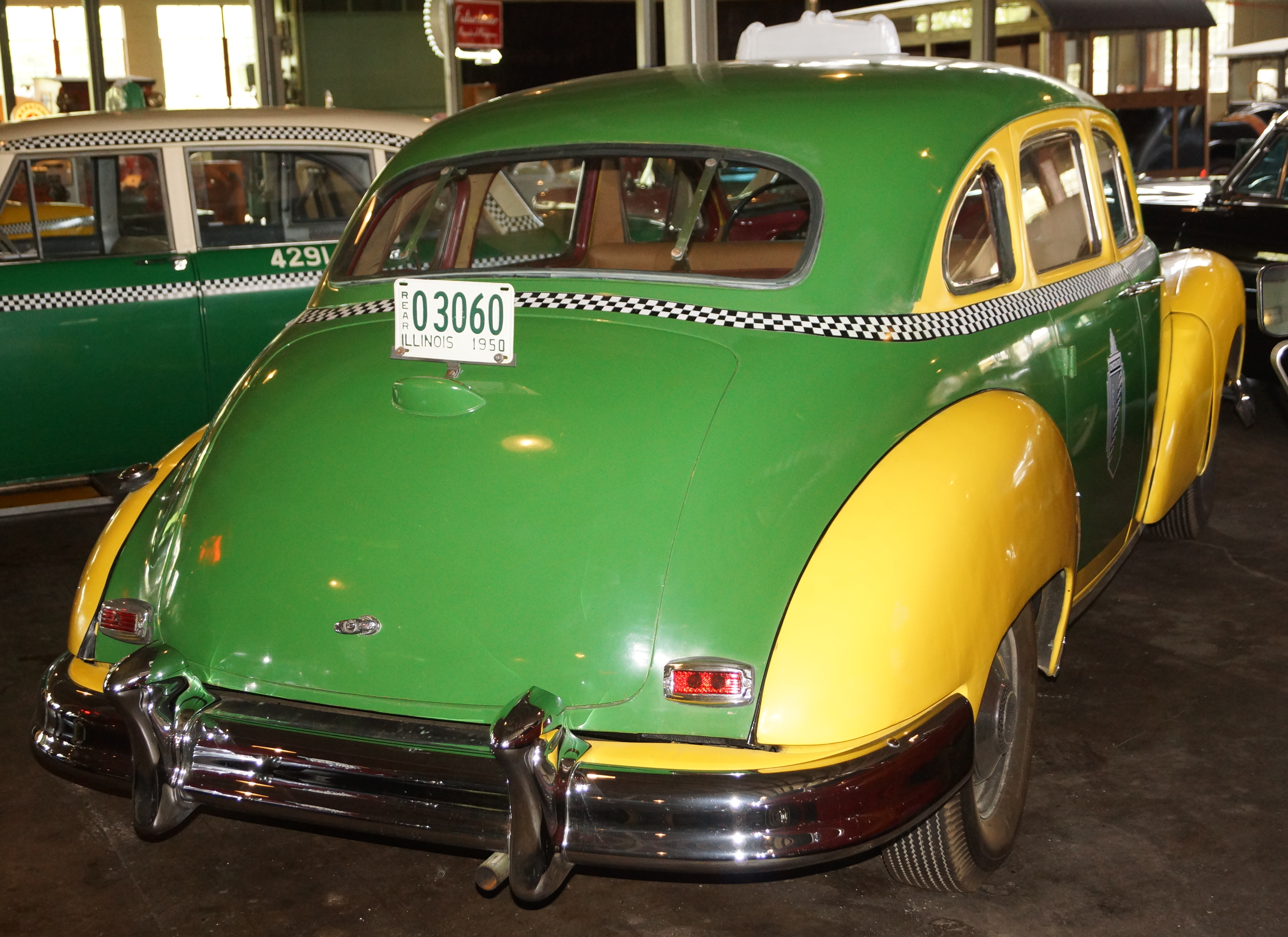 1950 Checker Model A4 taxicab National Automotive and Truck Museum1000 Gordon M. Buehrig Place Auburn, Indiana May 2017